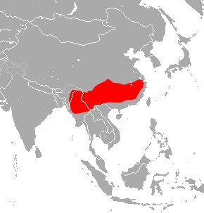 Rhinolophus shortridgei range